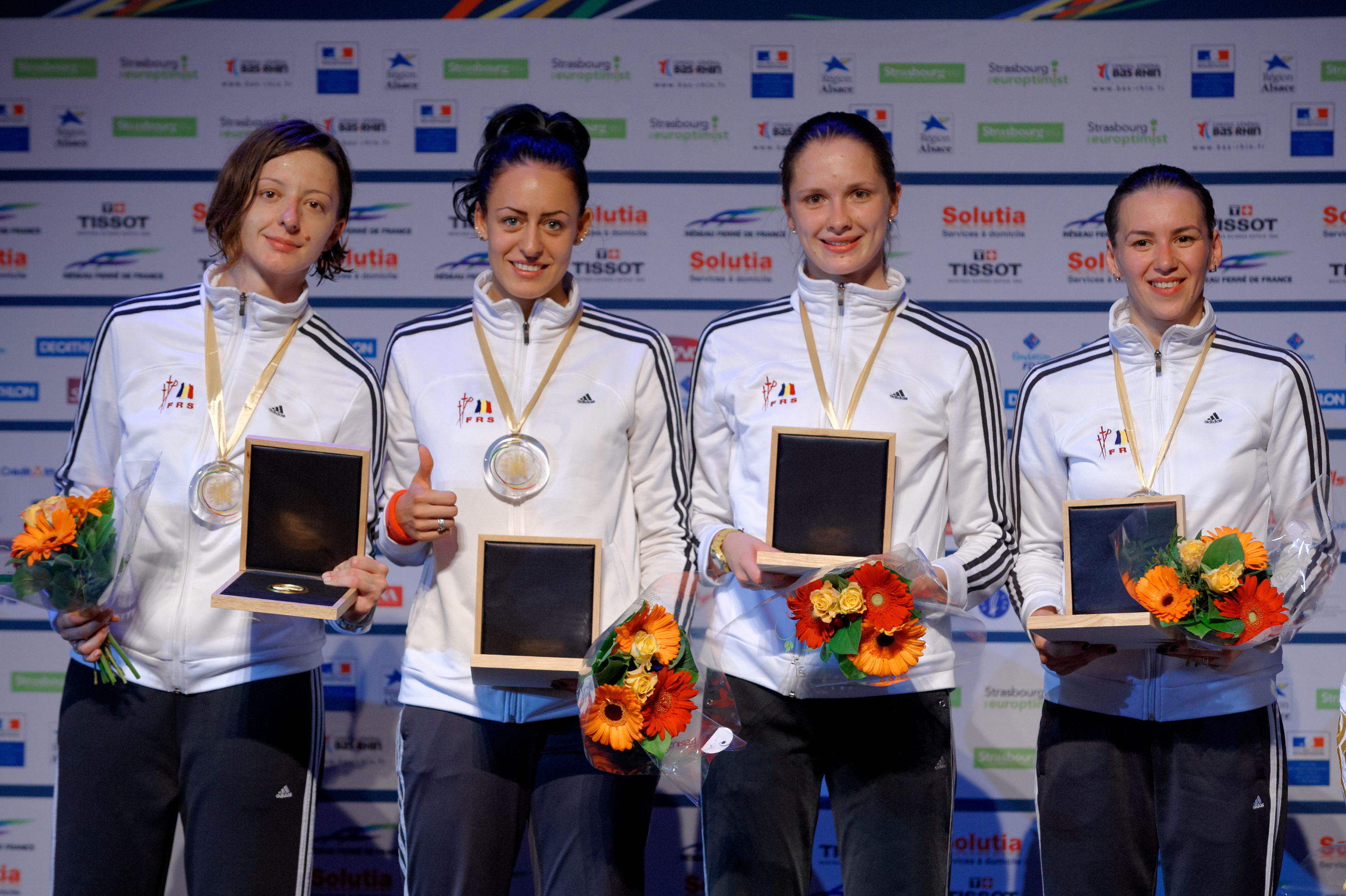 Romania (from left to right, Ana Maria Brânză, Maria Udrea, Simona Pop, and Simona Gherman) at the award ceremony of the women's team épée event at the European Fencing Championships at Rhénus Sport in Strasbourg on 12 June 2014.